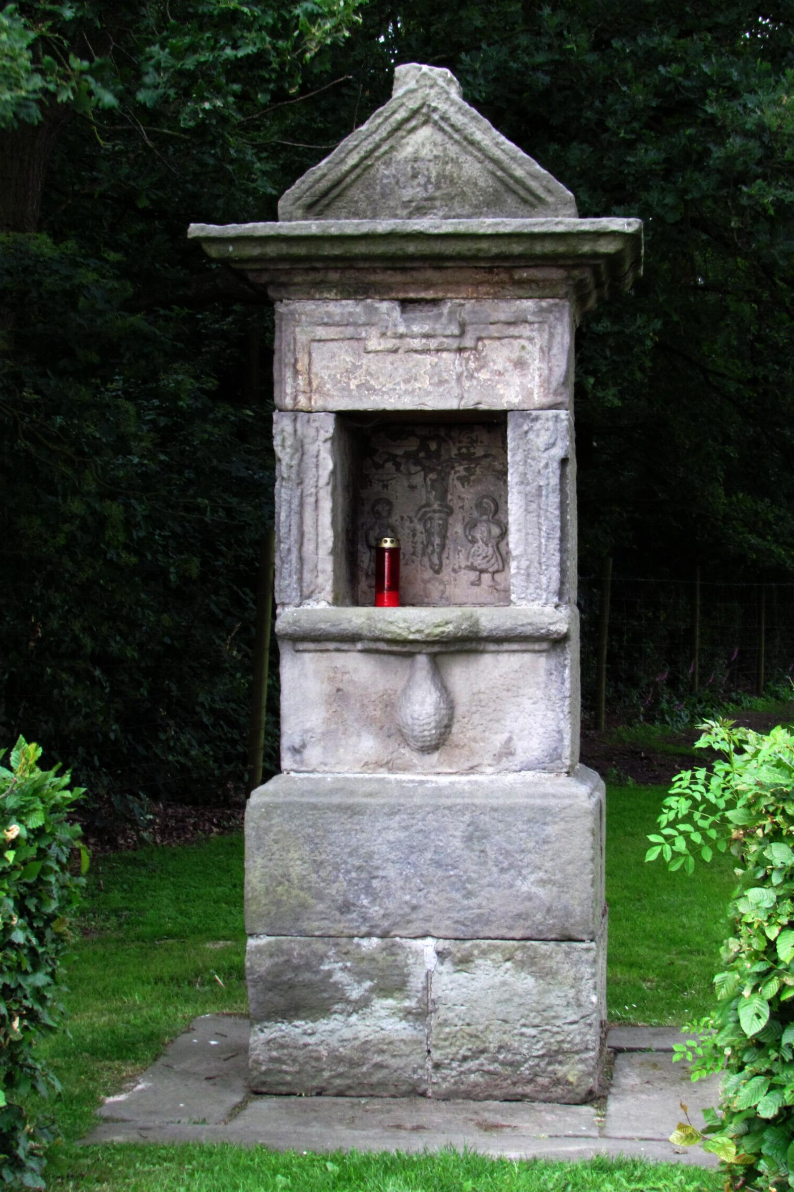 This is a photograph of an architectural monument.It is on the list of cultural monuments of Korschenbroich